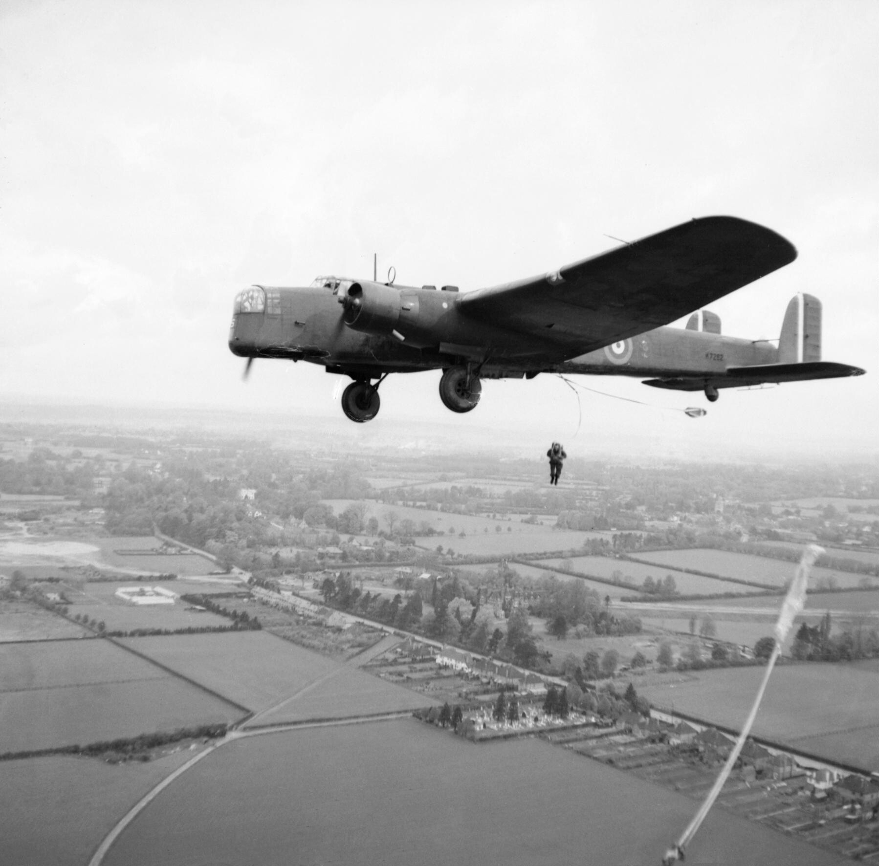 Parachute troops jump from a Whitley bomber during a demonstration for the King near Windsor, 25 May 1941. Parachute troops jump from a Whitley bomber during a demonstration for the King near Windsor, 25 May 1941.